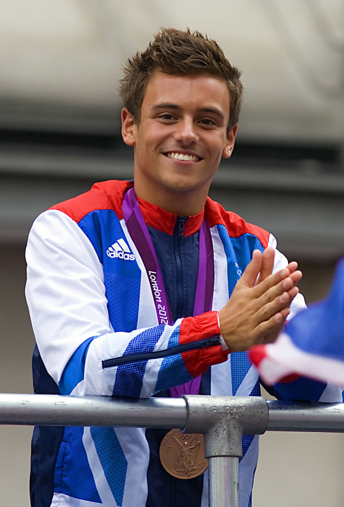 London 2012 Olympic & Paralympic Games Victory Parade, 10th September